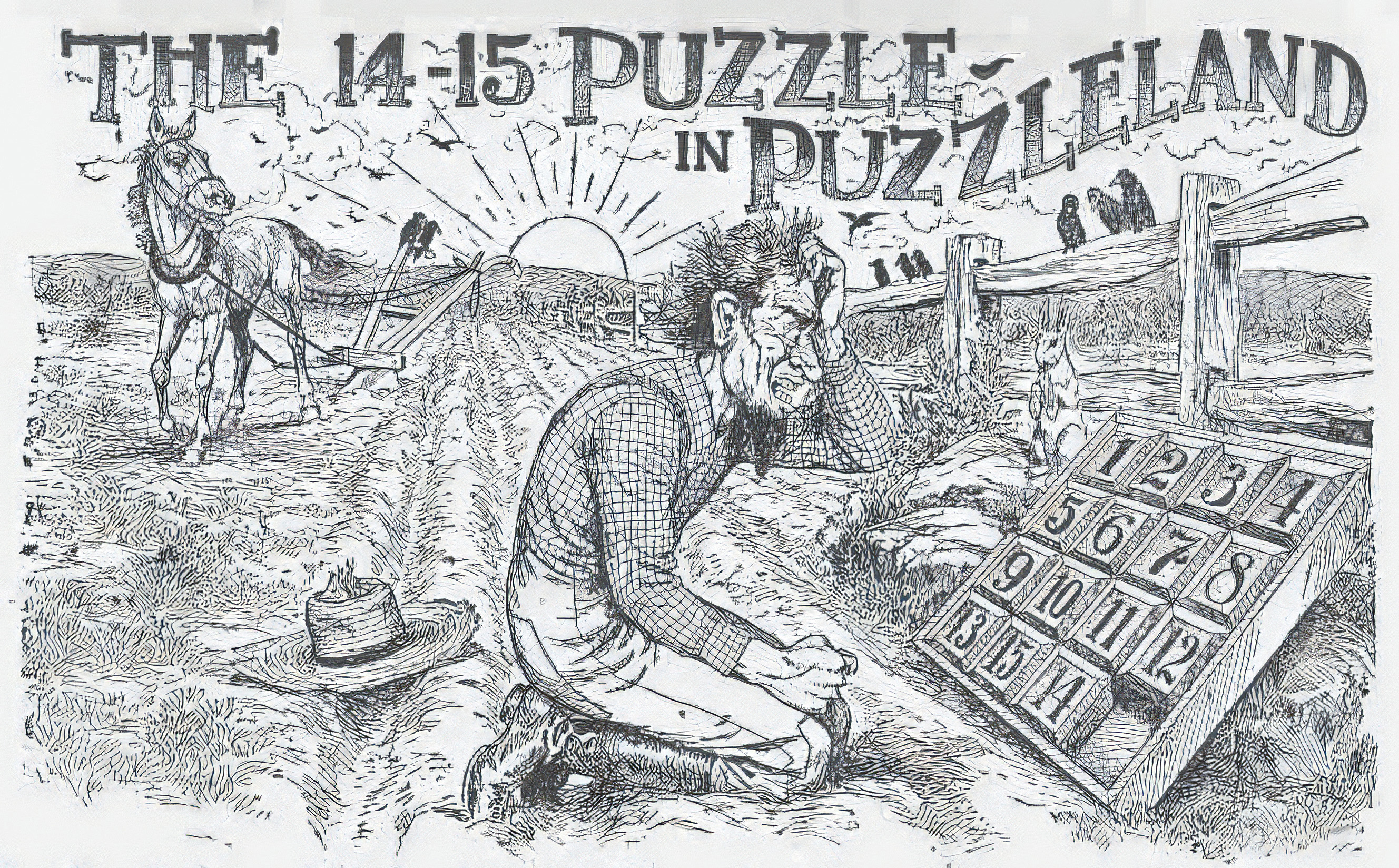 Illustration for the fifteen puzzle in Cyclopedia of 5000 Puzzles (1914) by Sam Loyd, p. 235. Image is a black-and-white drawing (etching) and depicts a farmer kneeling (in a plowed row) in front of a fifteen puzzle in an impossible to solve configuration (14 and 15 switched), scratching his head in puzzlement, with his straw hat on the ground, his horse and plow abandoned on the left, a fence to the right, with numerous blackbirds and one rabbit visible. The sun is setting in the distance, reinforcing the passage of time. Above the image, the title text reads “The 14-15 Puzzle in Puzzleland”.